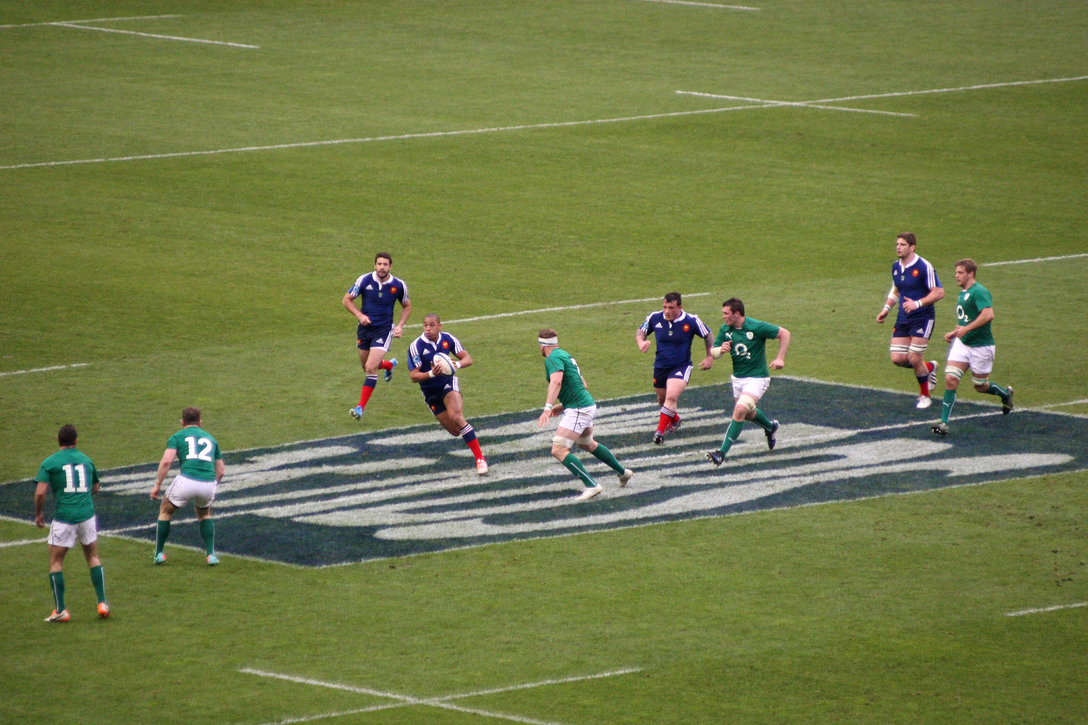 2014 Six Nations Championship, France vs Ireland. Ball player is Gaël Fickou